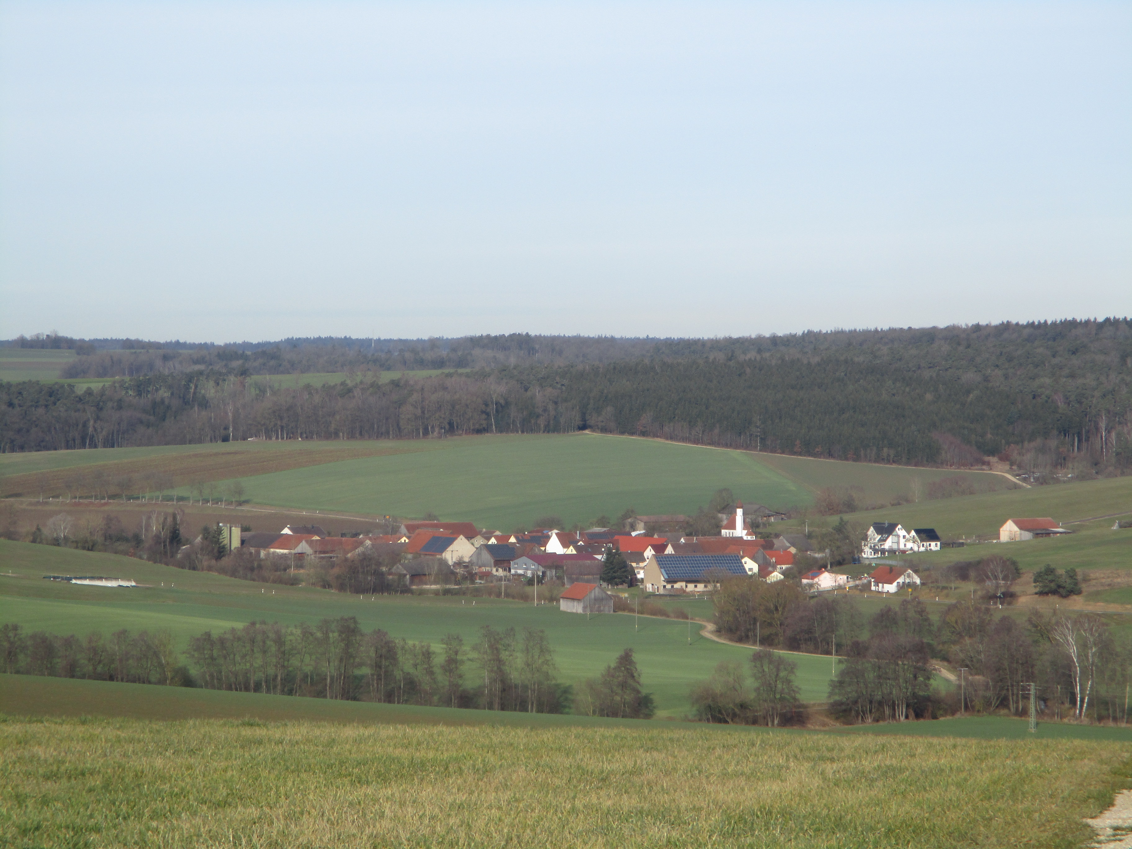 The village of Hochfeld, east of Daiting, Bavaria, seen from the south.